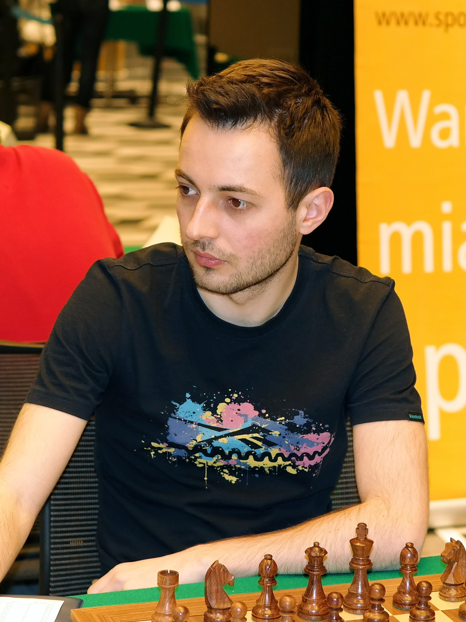 IM Marcin Sieciechowicz, Polish Chess Championship, Warsaw 2014